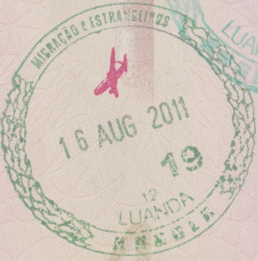 Angolan Entry Stamp in a China old version diplomatic passport